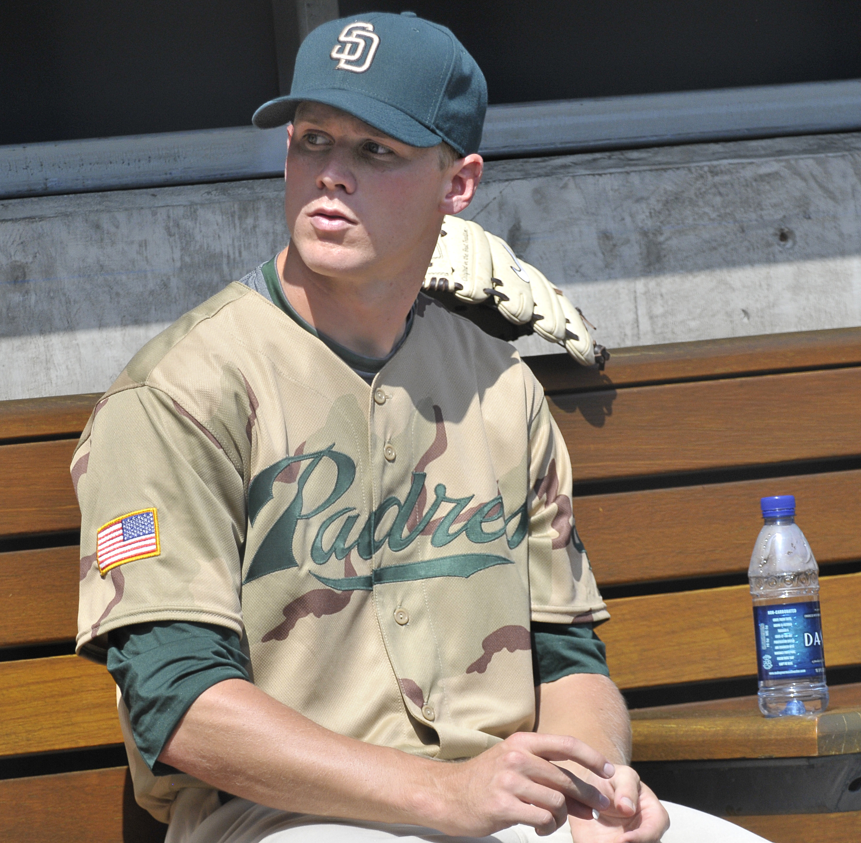 Mike Ekstrom San Diego Padres pitcher in the bullpen 9/14/08